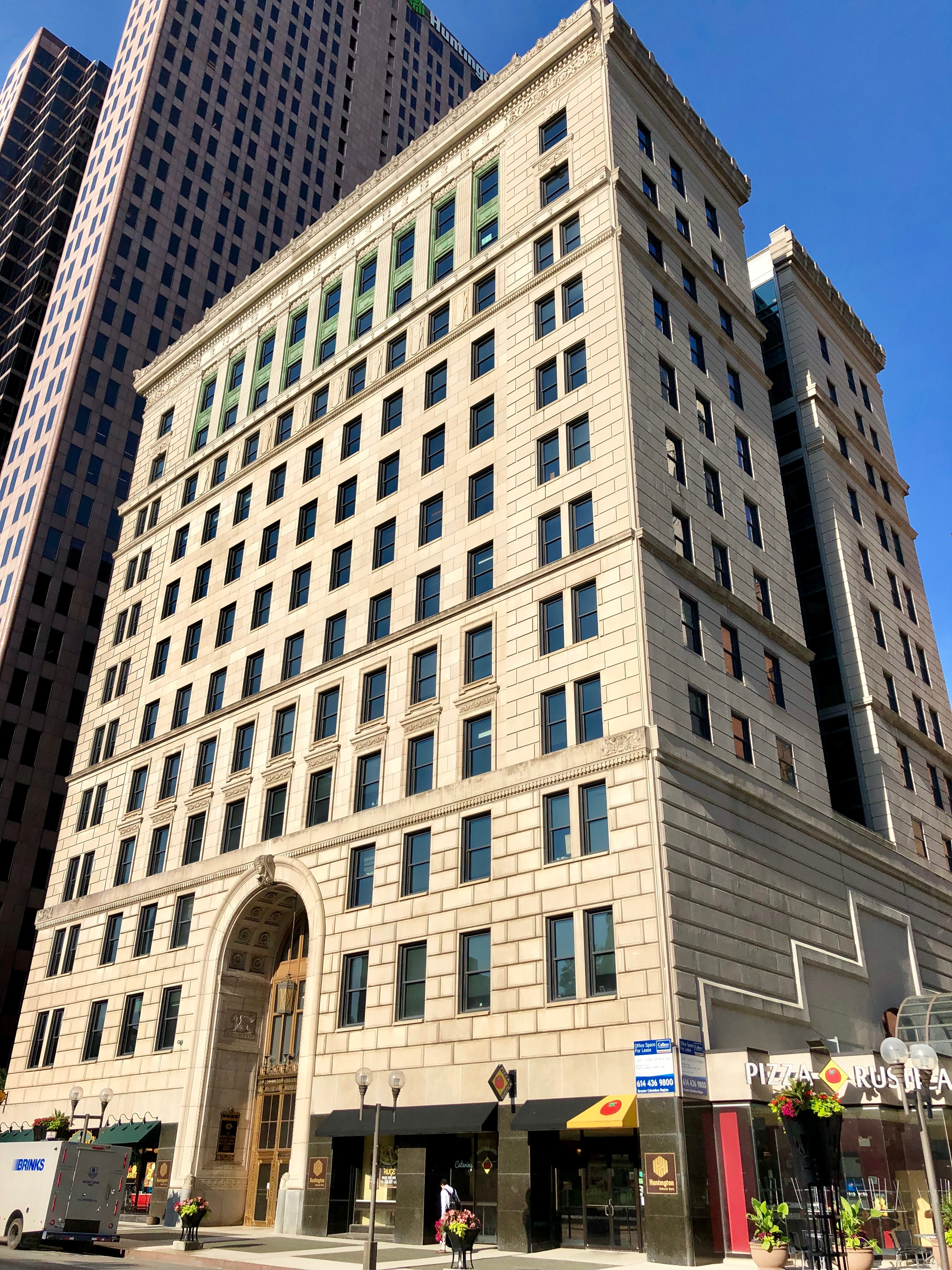 Image taken in Columbus, Ohio, by User:W lemay (Warren LeMay). May require further categorization.